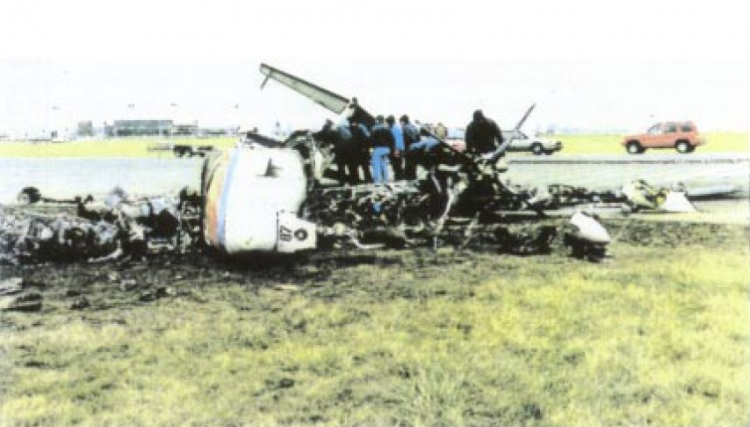 Accident photo of Great Lakes Flight 5925